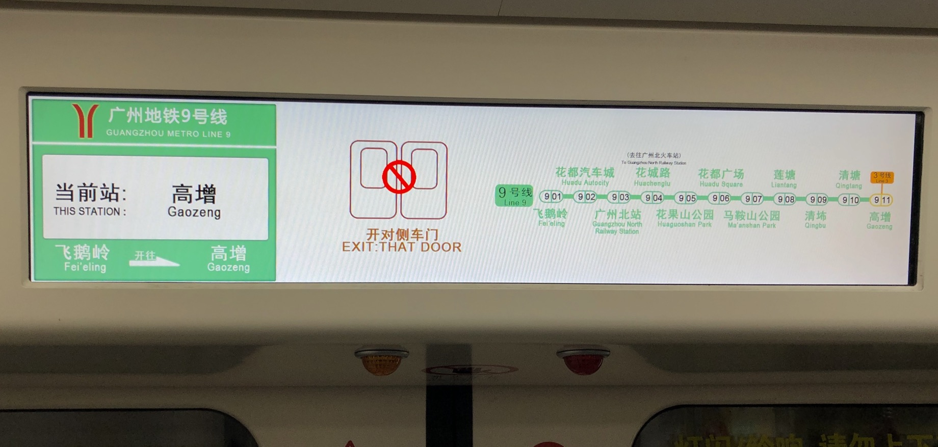 Guangzhou metro line 9 LCD screen